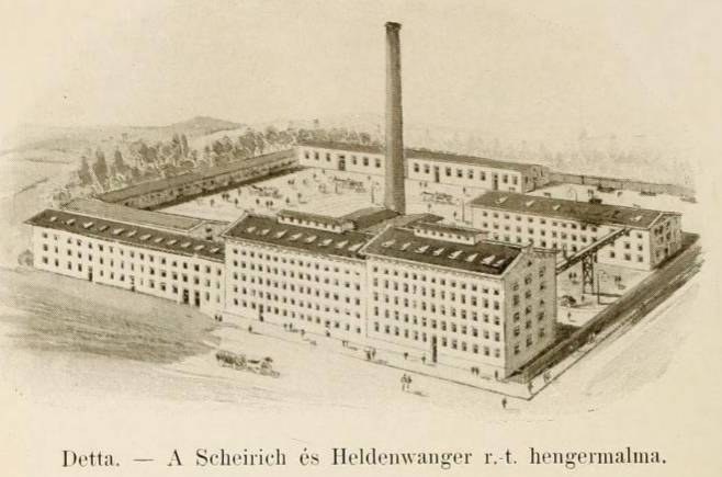 Detta, cylinder mill